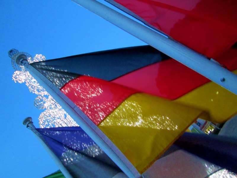 German flag waiving in Nicosia Municipal Hall Republic of Cyprus